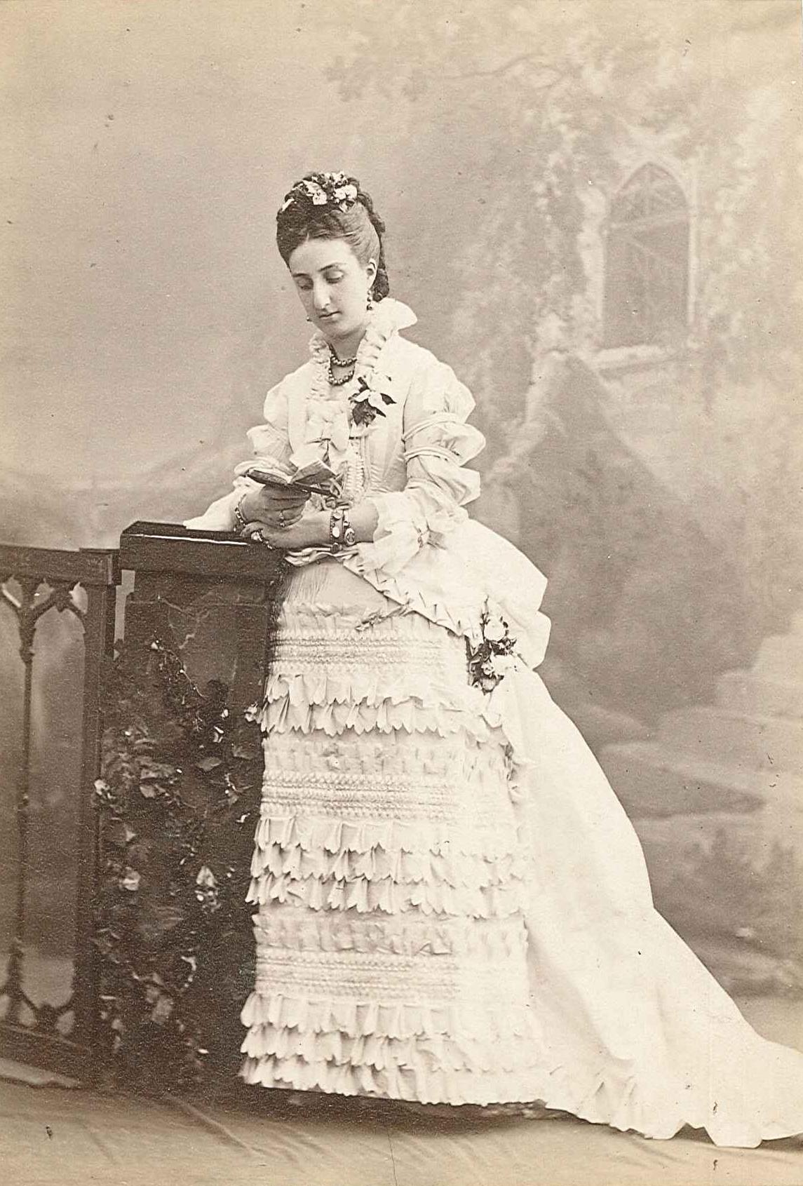 Princess María Cristina of Orléans (1852-1879)